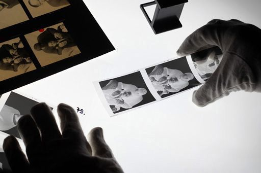 photo archive of Andreas Bohnenstengel